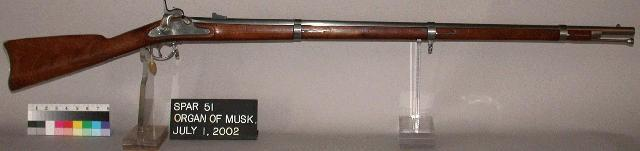 Springfield Armory MODEL 1861